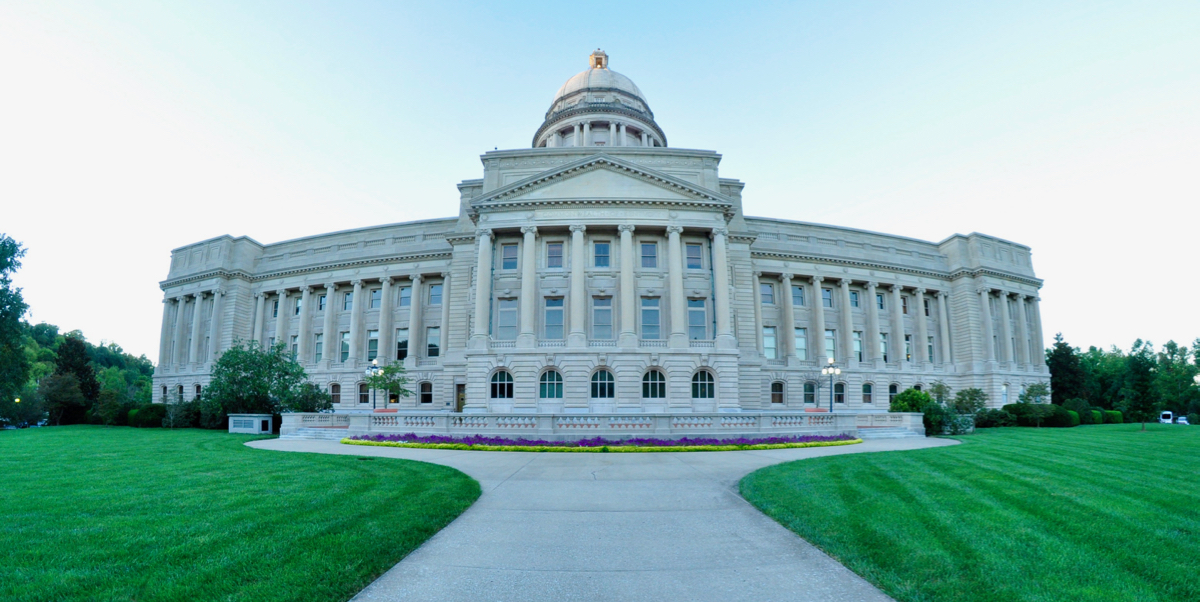 The south facade of the Kentucky State Capitol building located in Frankfort, Kentucky